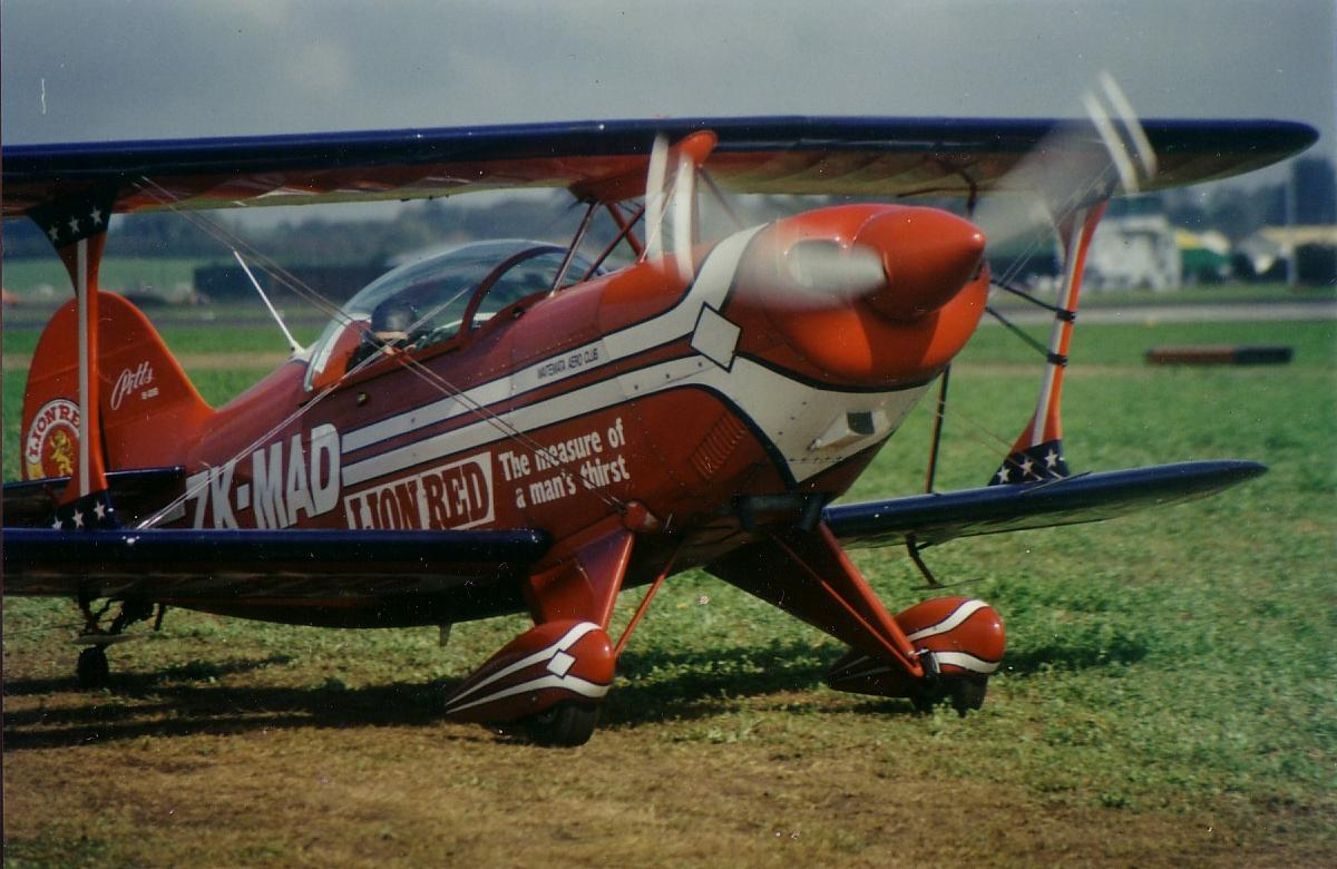 New Zealand Waitemata Aero Club Pitts Special (ZK-MAD) with Lion Red Beer advertising, photographed in the early 1990s.